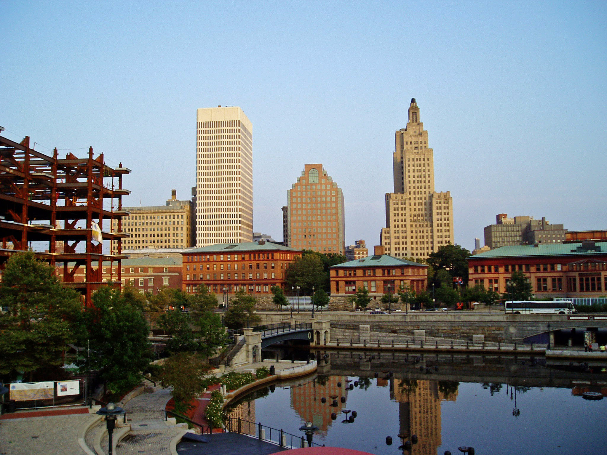 The existing Providence skyline amidst new construction on Intercontintental' Waterplace Condominiums.